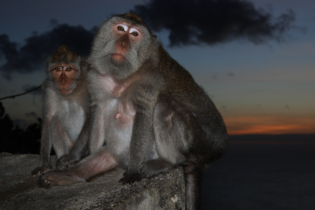 One for the album